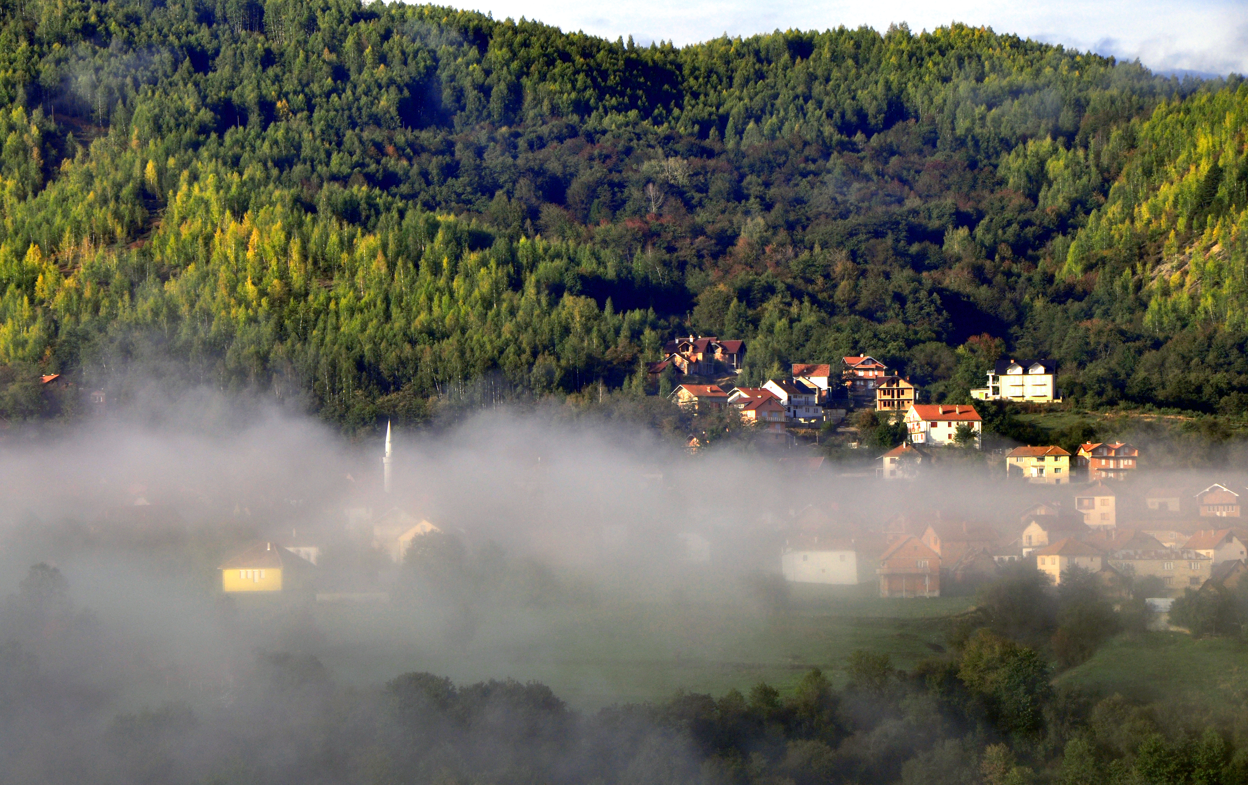 Vranishta village, southern Kosovo